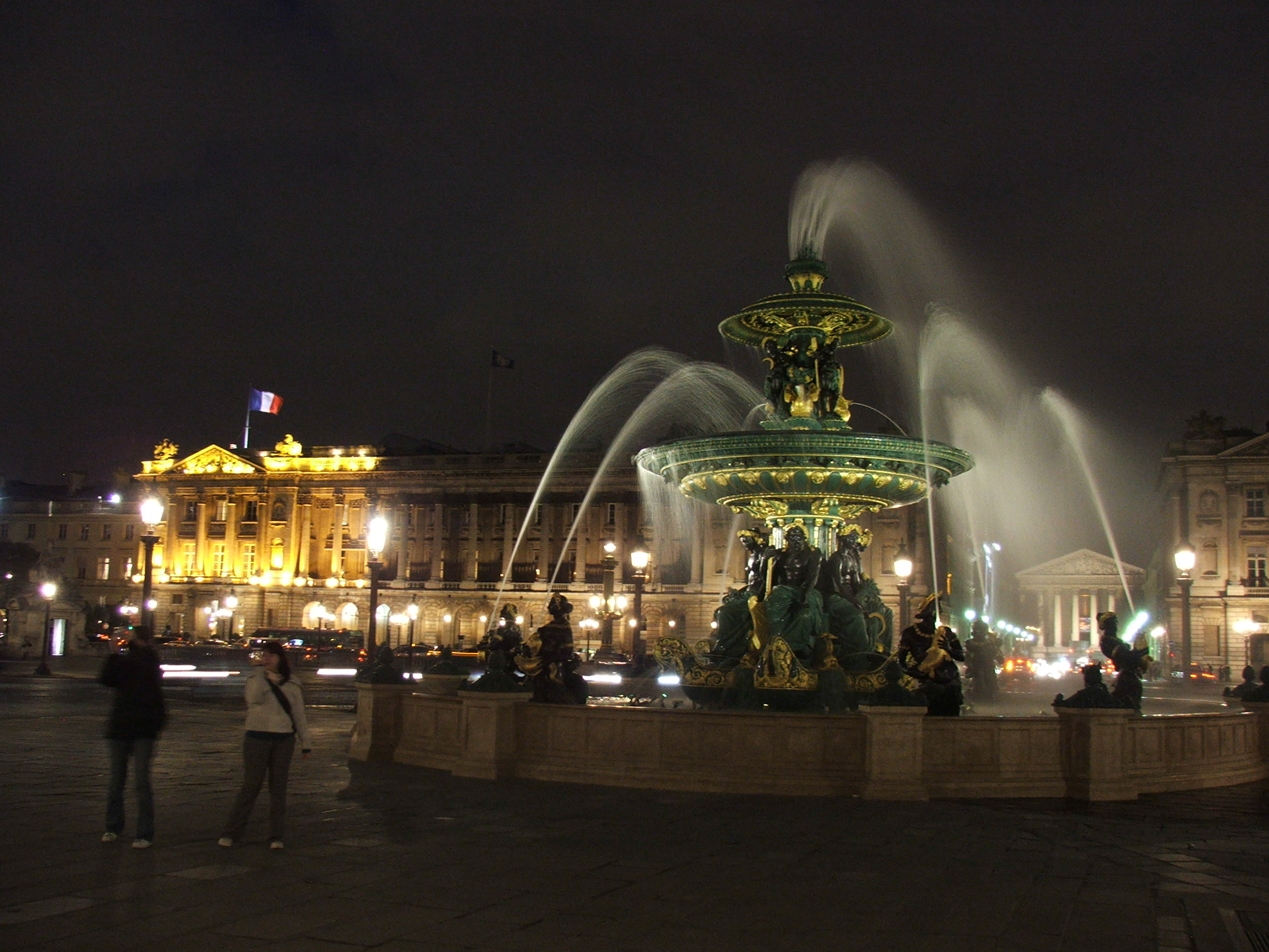 Fountain at Place de la Concorde, Paris. On the left, the "Hotel de Crillon". At the end of the street : "Eglise de la Madeleine".